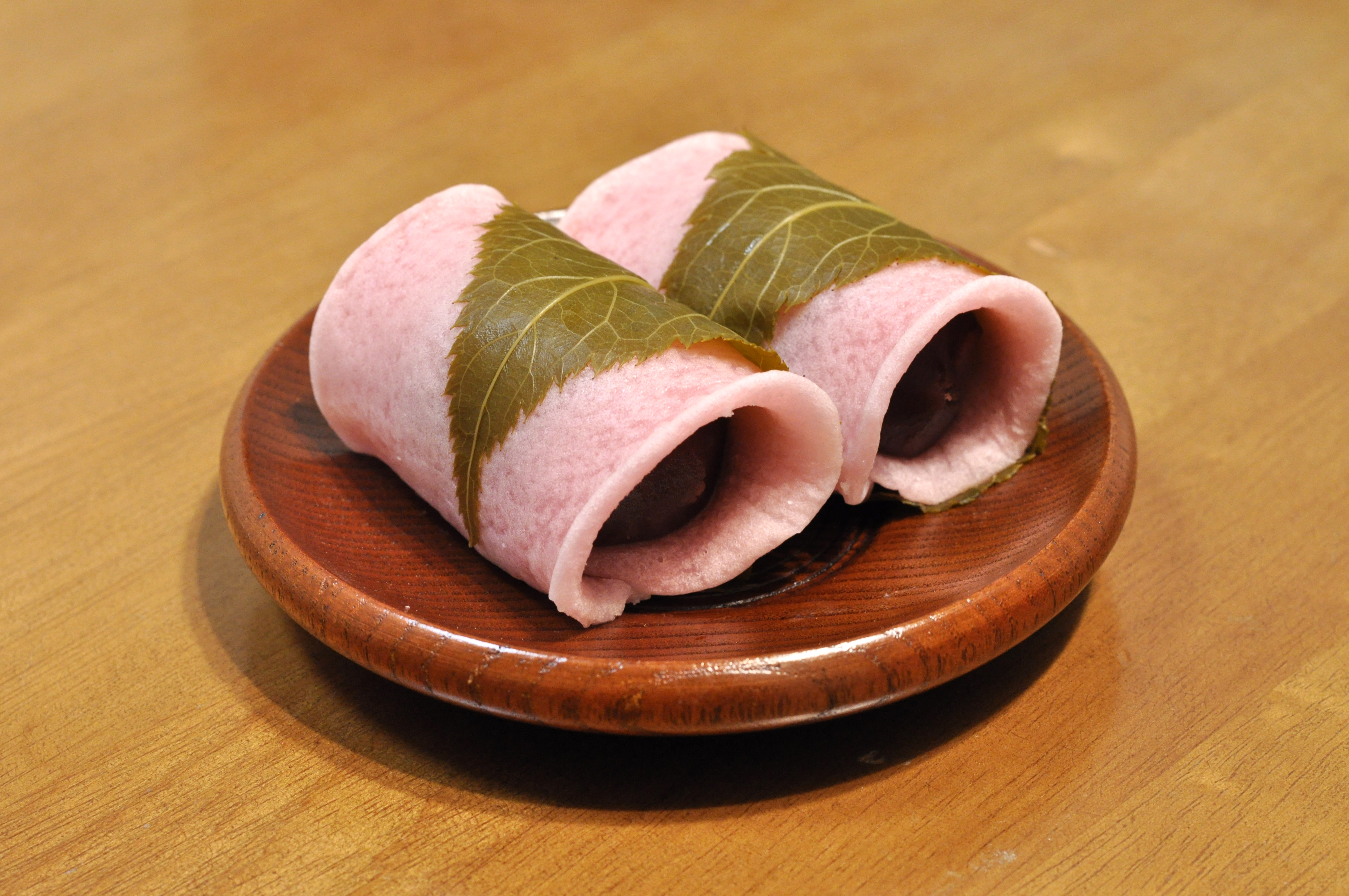 Chōmei-ji style sakura-mochi